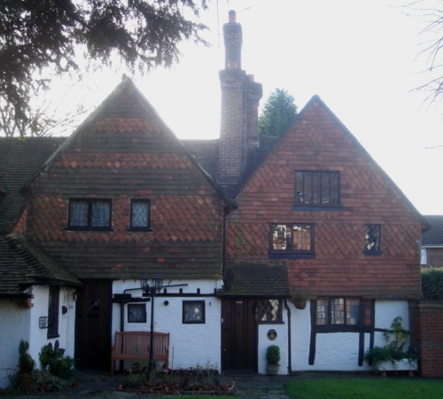 8-10 Old Martyrs, Langley Green, Borough of Crawley, West Sussex, England: a late 16th-century farmhouse converted into two houses. Large chimney on the tiled roof, and some exposed timbers on the ground floors. Listed at Grade II by English Heritage (IoE code 363368)